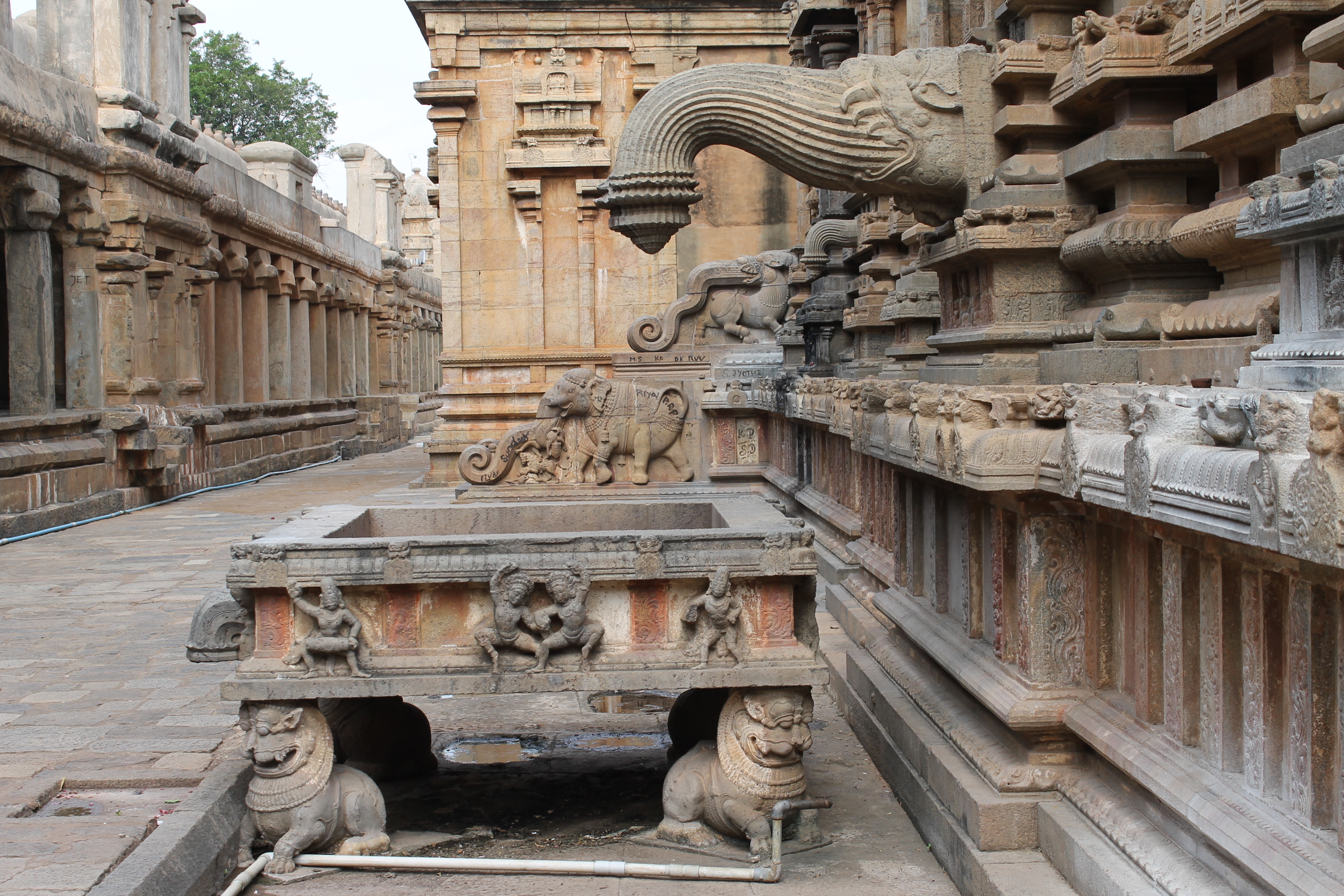 Location: Thanjavur, Tamil Nadu, India. UNESCO declared this monument as world heritage symbol.